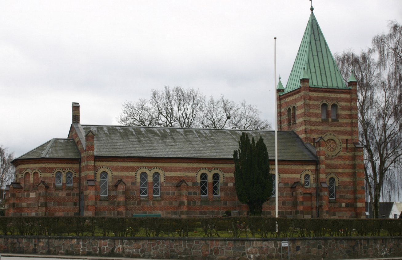 Description: The Church of Aaby seen from the north. Taken in Jutland